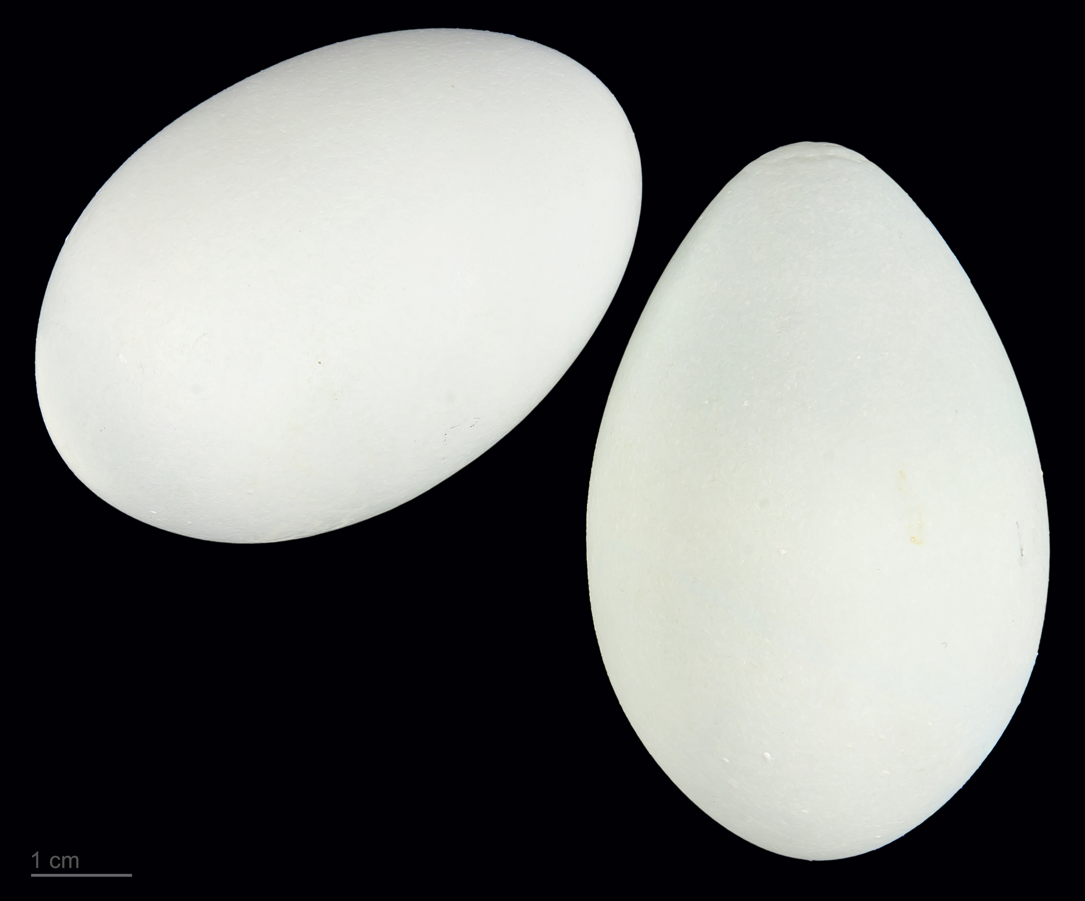 Eggs of grey heron Two specimens of the same spawn ; collection of Jacques Perrin de Brichambaut.